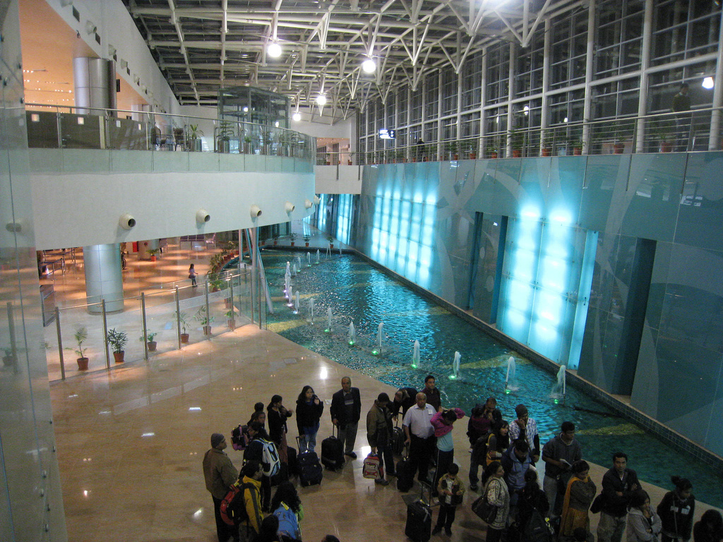 Terminal 2 from Inside - SVP International Airport Ahmedabad